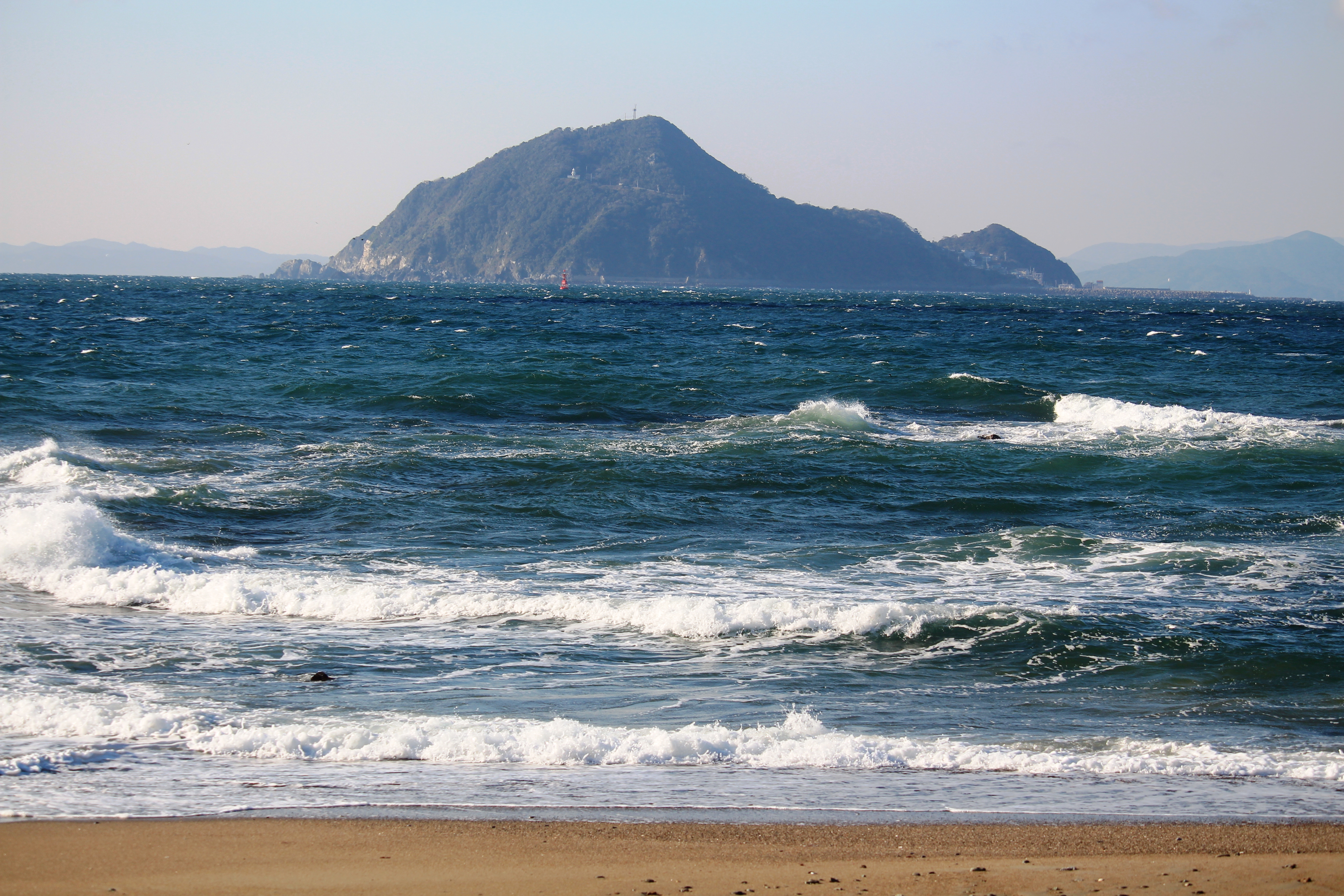 Kami Island (Mie prefecture) seen from Cape Irago, in Tahara, Aichi prefecture, Japan.